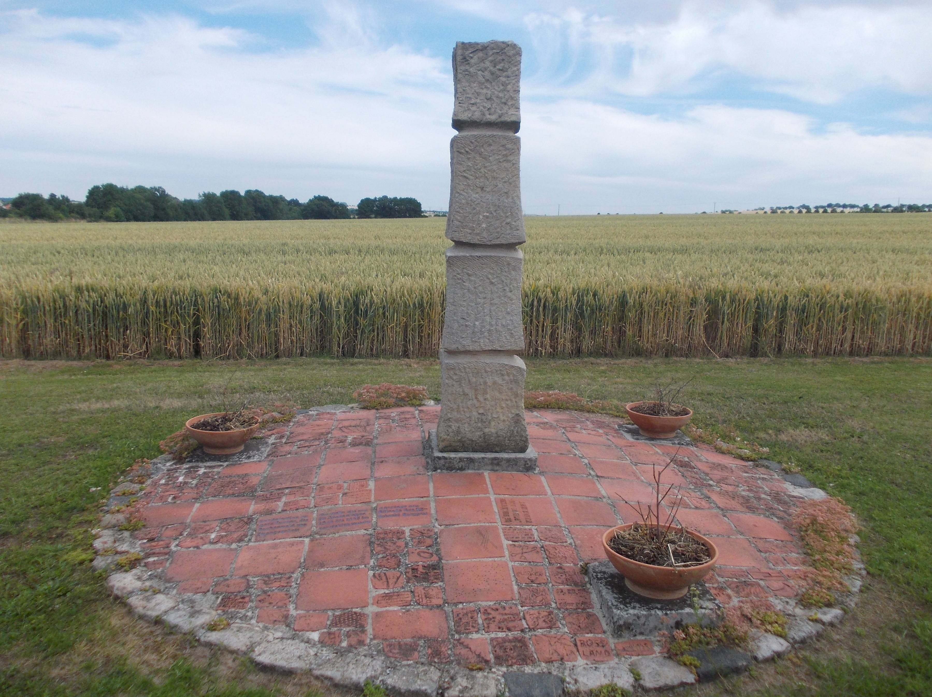 Memorial to the Burggraf Mine near Billroda (Finne, district: Burgenlandkreis, Saxony-Anhalt), a satellite camp of Buchenwald concentration camp